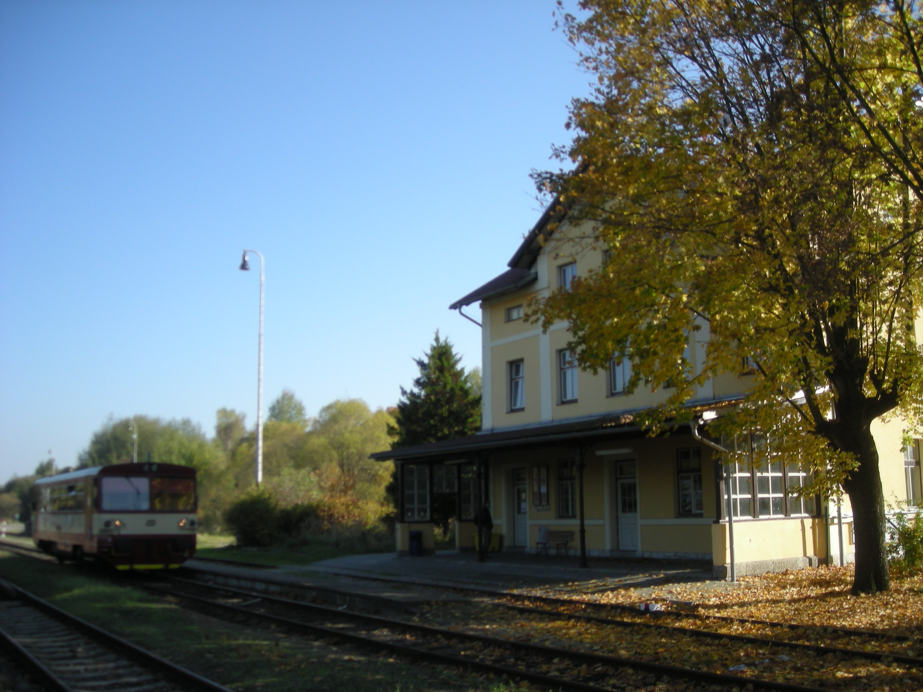 Train station in Netolice, Czech Republic, a terminus of secondary line from Dívčice.